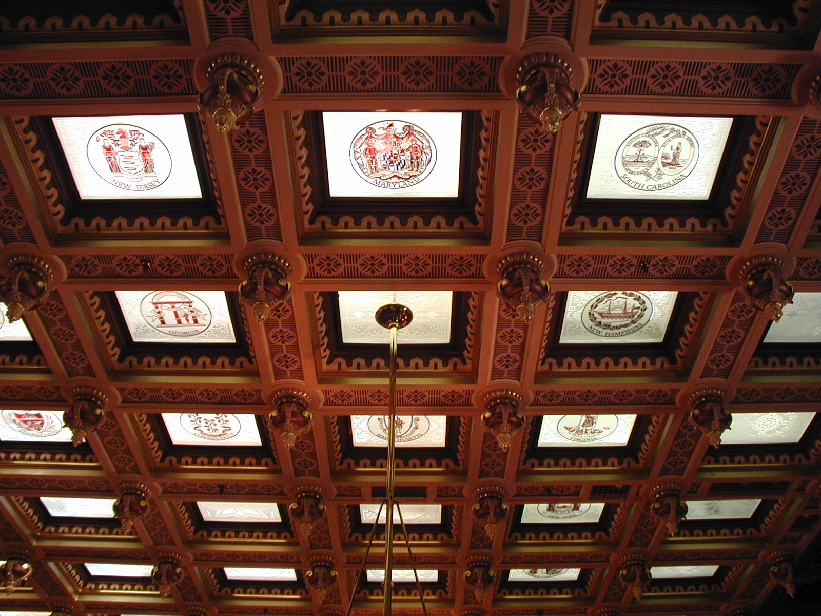 Glass-tiled ceiling in the Michigan State Capitol bearing the coat of arms of each state. (Probably the House of Representatives chambers)